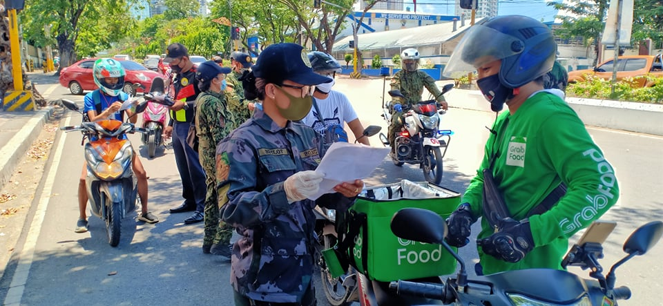 Police personnel stationed at checkpoints in Cebu City checking the documents presented by drivers. This response measure is done to help "flatten the curve." (Photo by PRO-7)